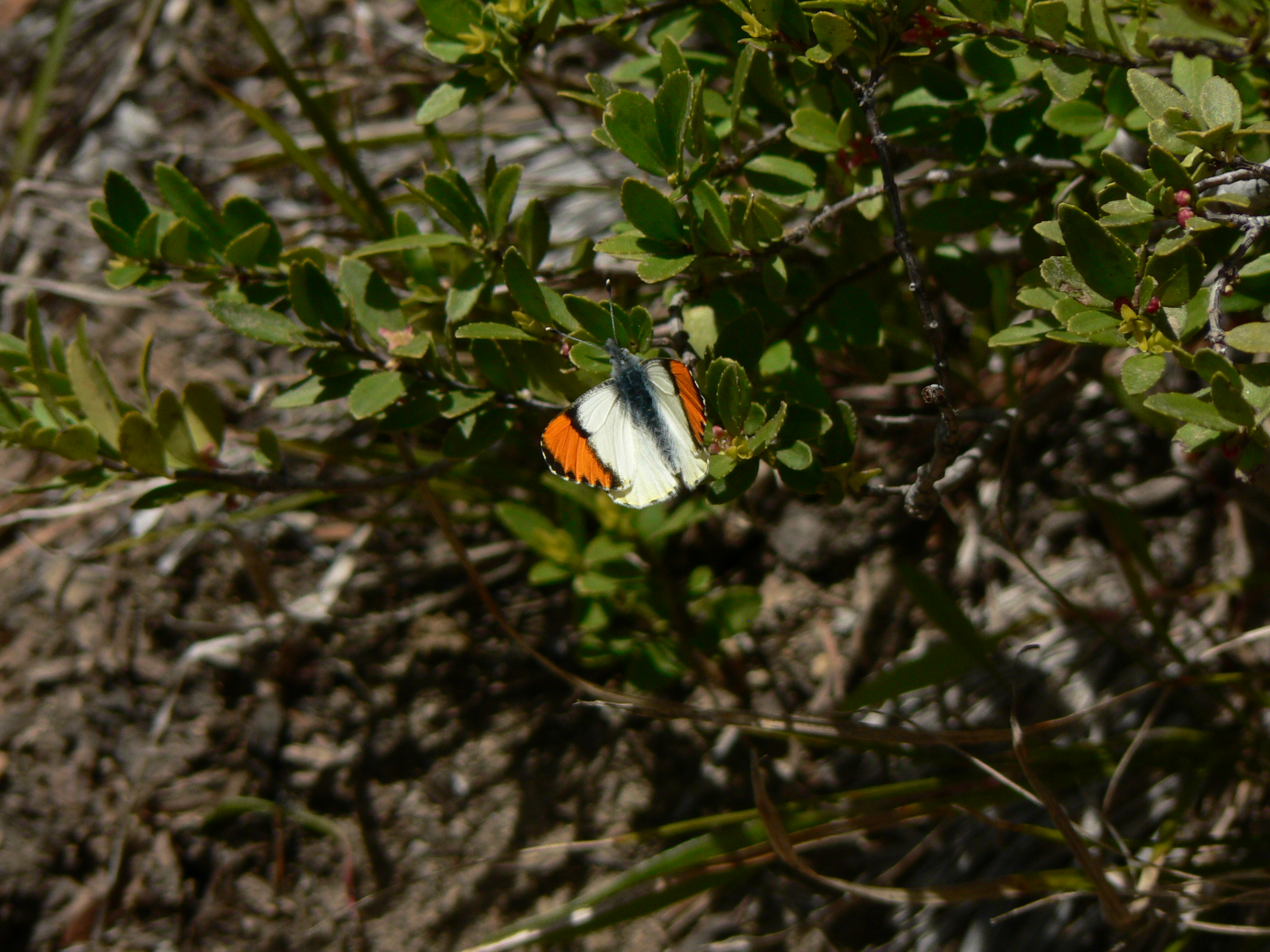 Sara's Orangetip